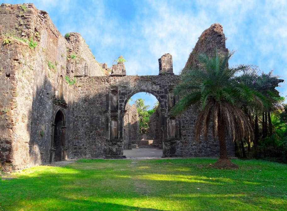 Vasai fort building2